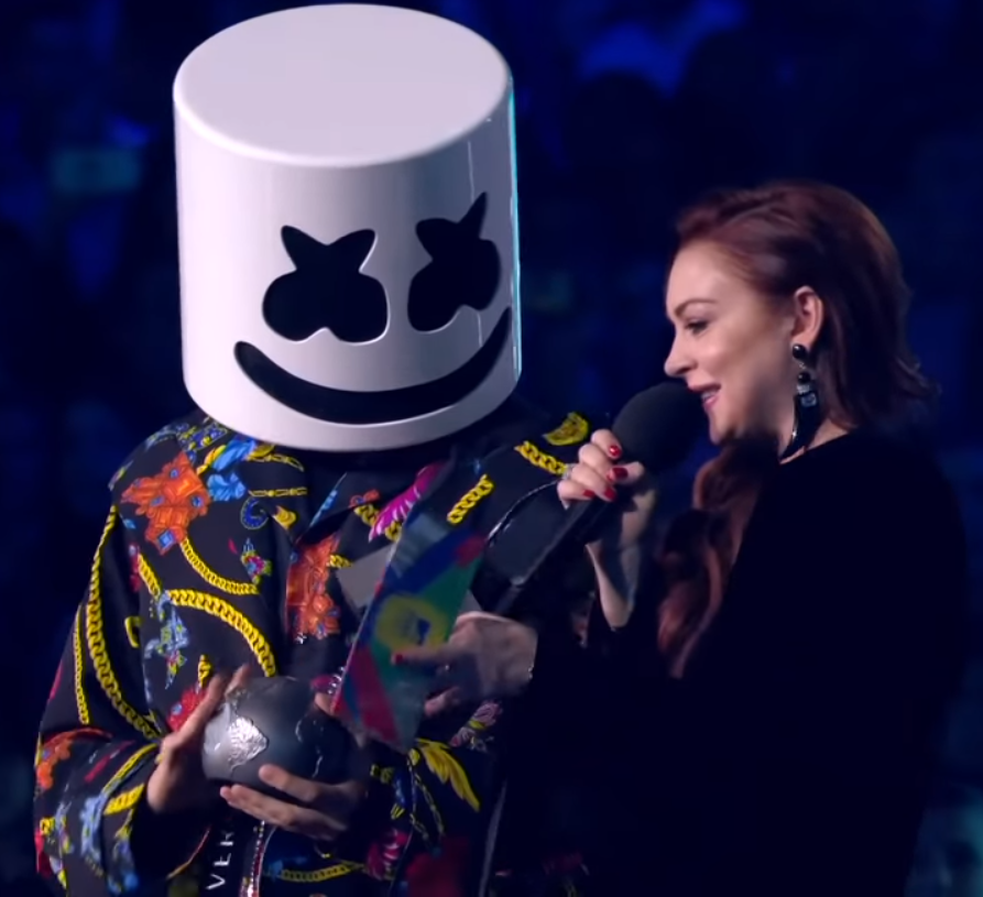 Marshmello accepts a MTV Europe Music Award for Best Electronic at the 2018 MTV EMAs.